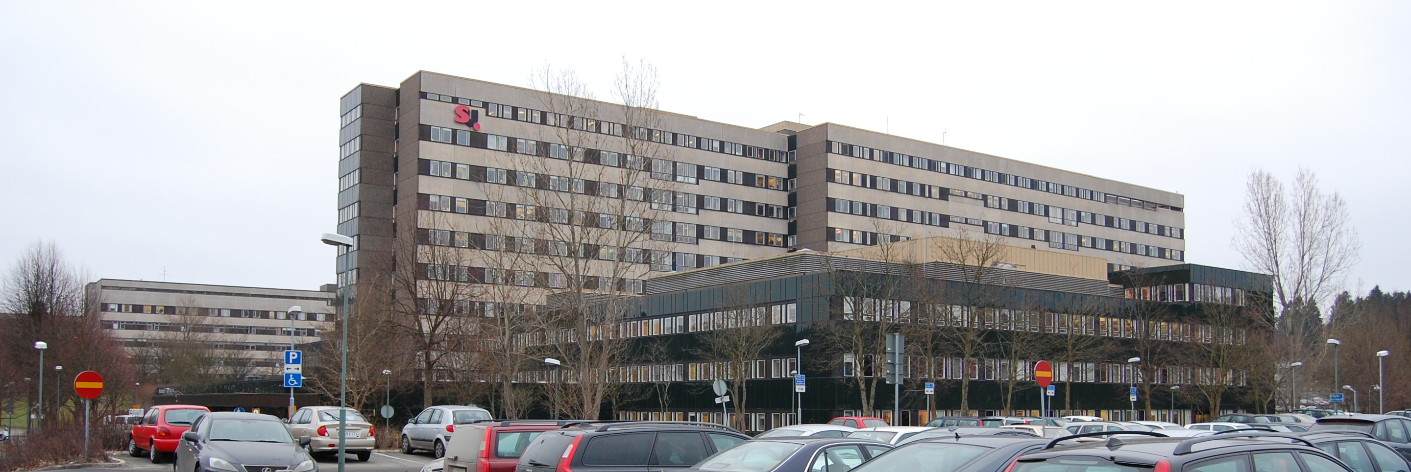 Östra sjukhuset in Gothenburg from tram stop